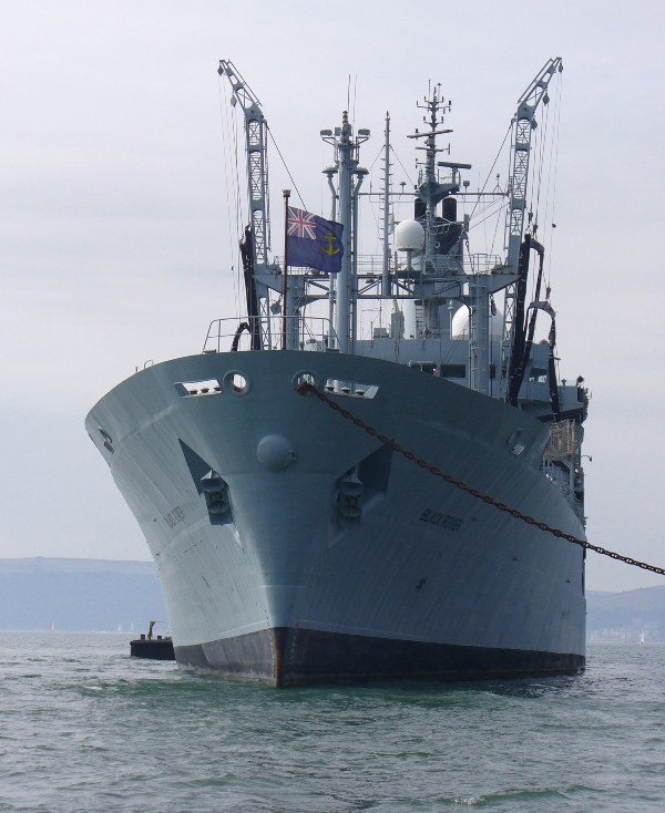 RFA Black Rover. At Plymouth 2005. DM Gerrard. IMO Number: 7329338 MMSI Number: 232427000 Callsign: GREU Length: 140 m Beam: 19 m